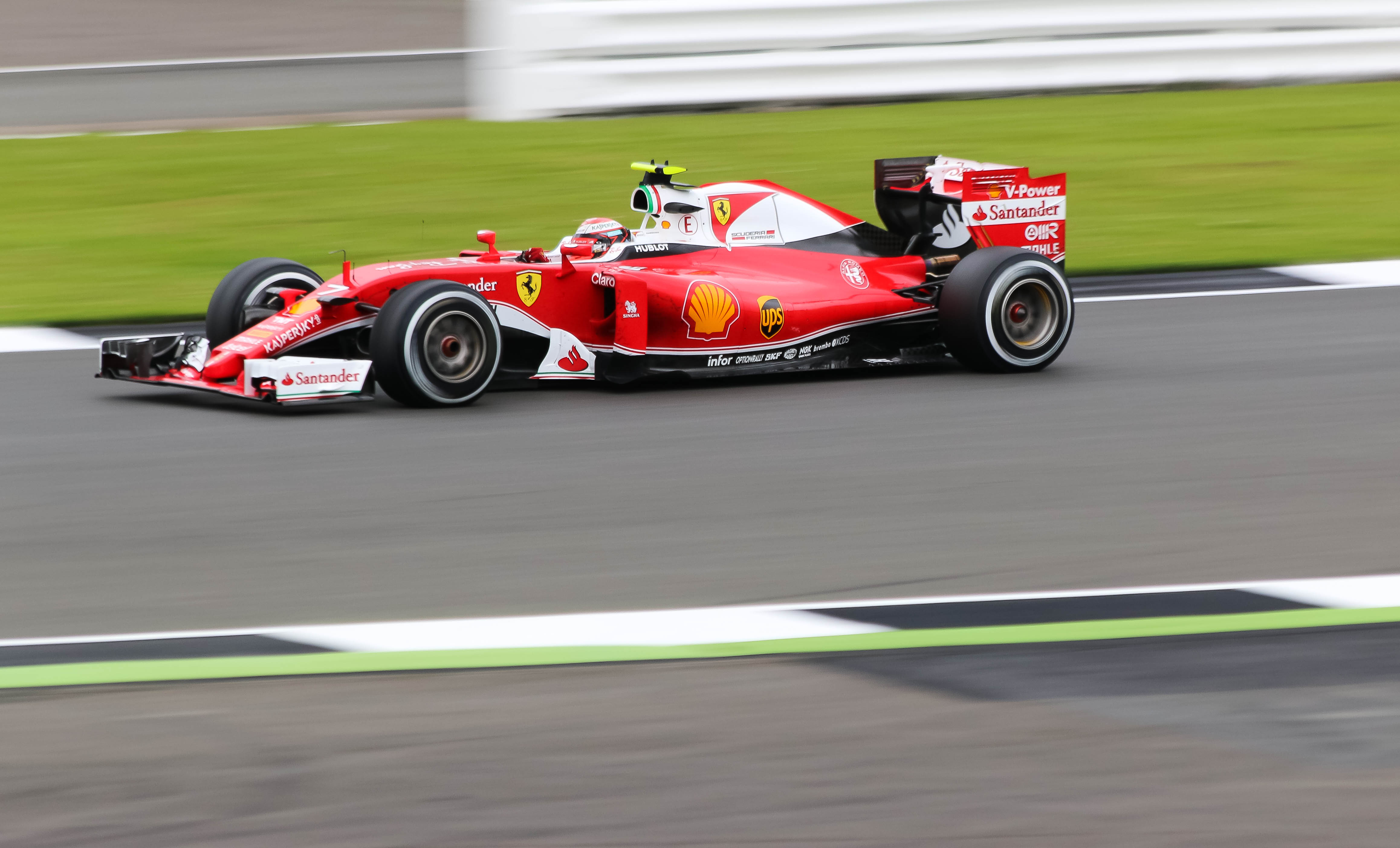 Kimi Räikkönen in the Ferrari SF16-H, 2016 British GP